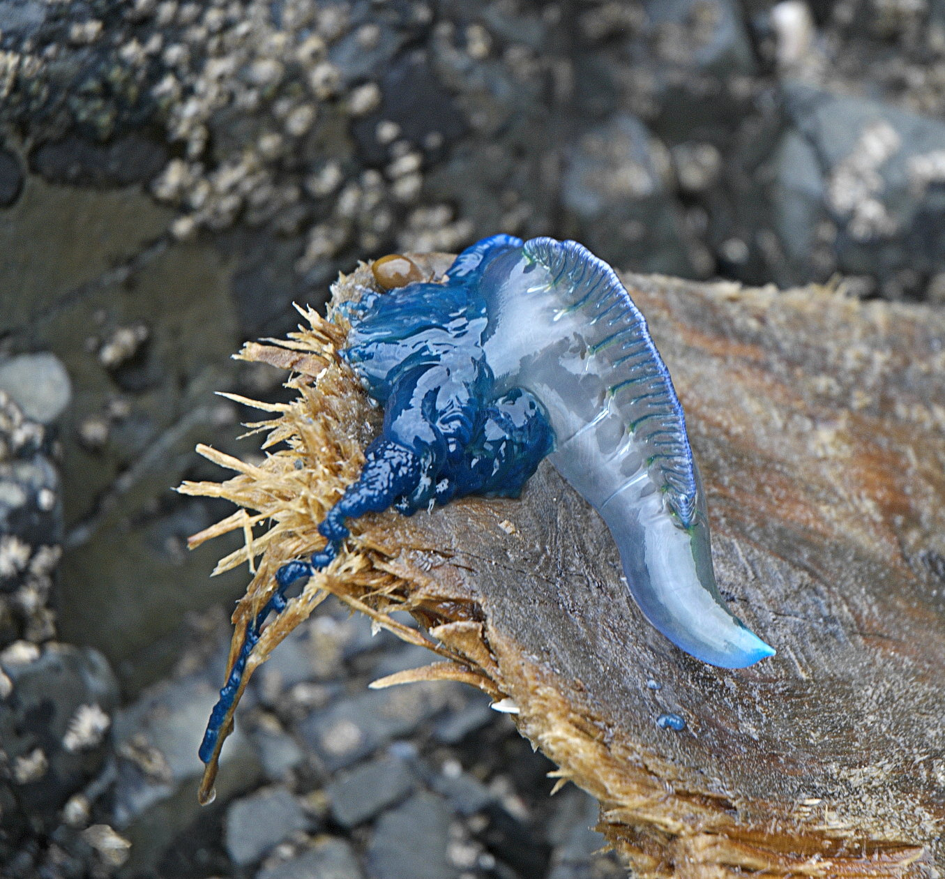 Portuguese Man o' War, Tawharanui, New Zealand